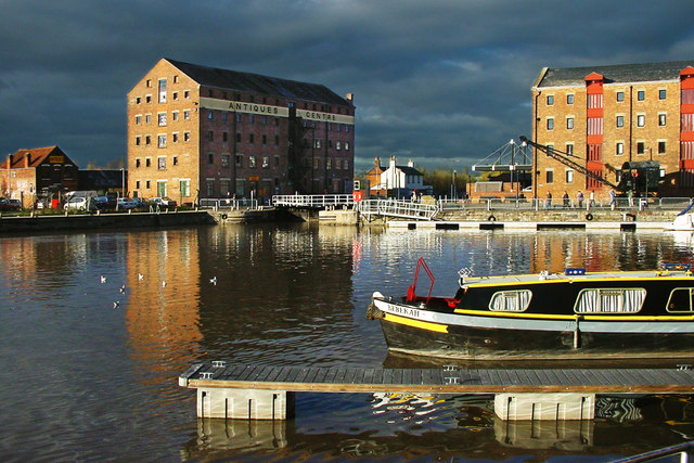 Gloucester Docks at Dusk